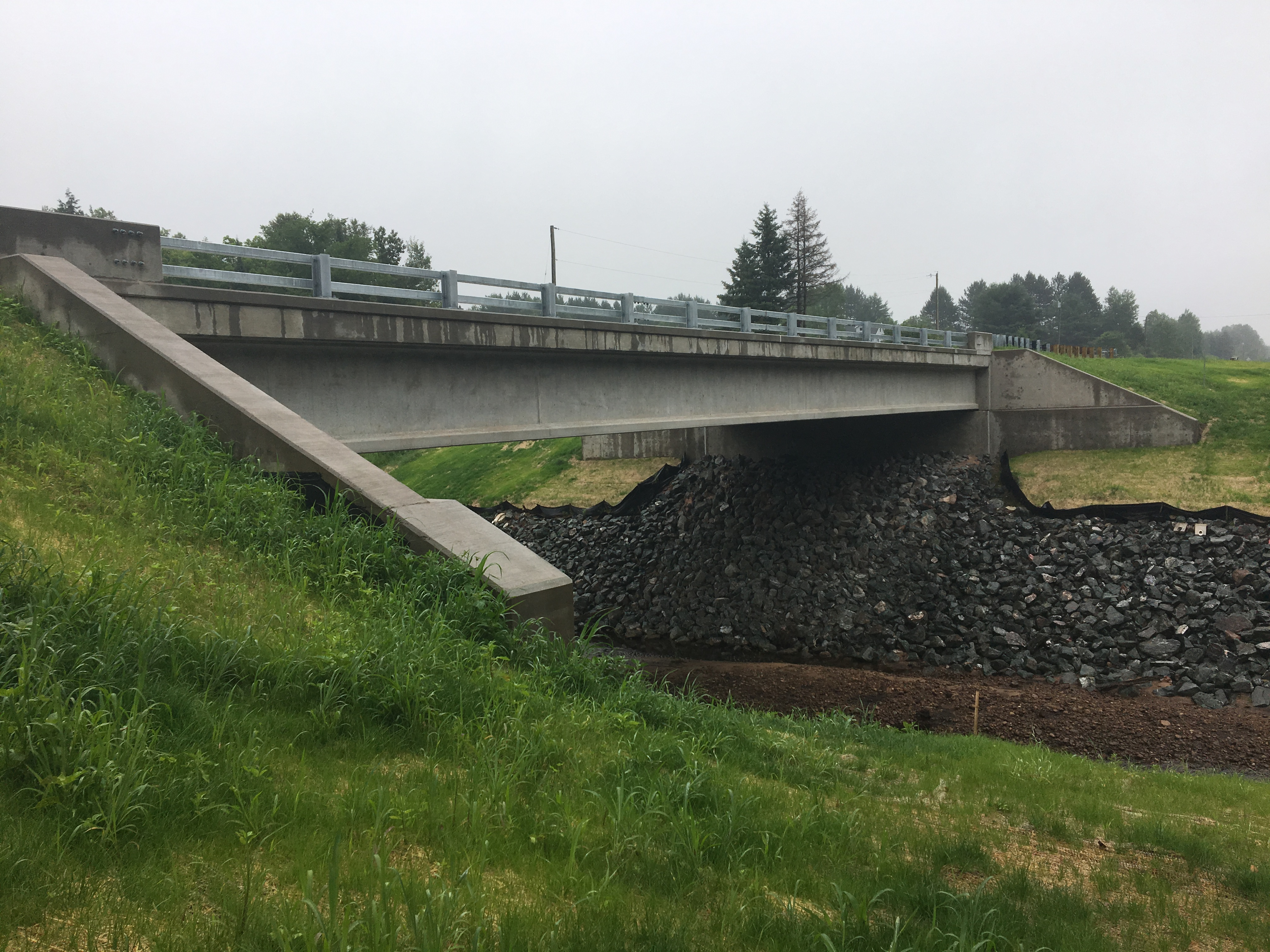 M-94 bridge over the East Branch of the Chocolay River in West Branch Township, Marquette County, Michigan